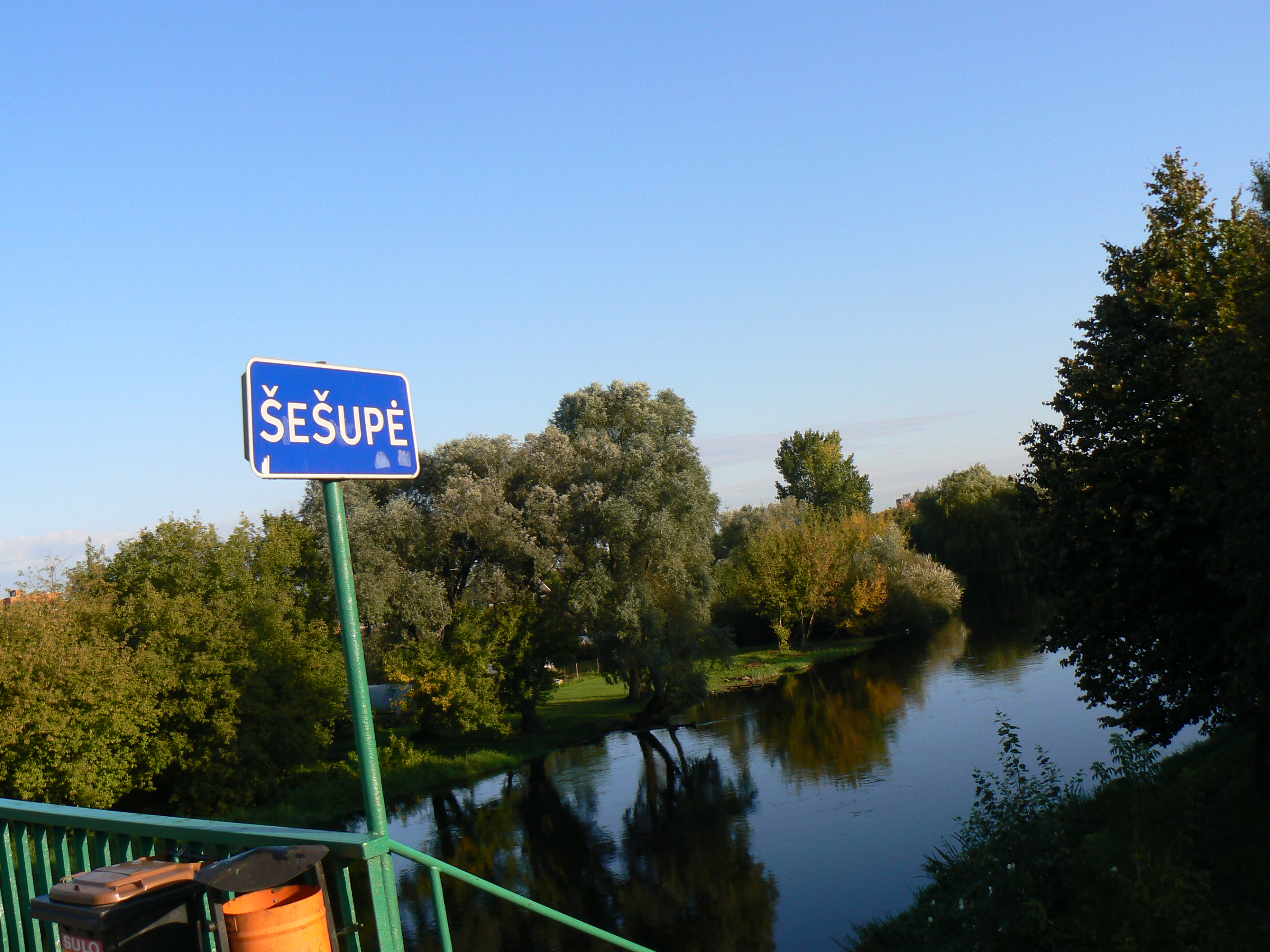 River Šešupė in Marijampolė.